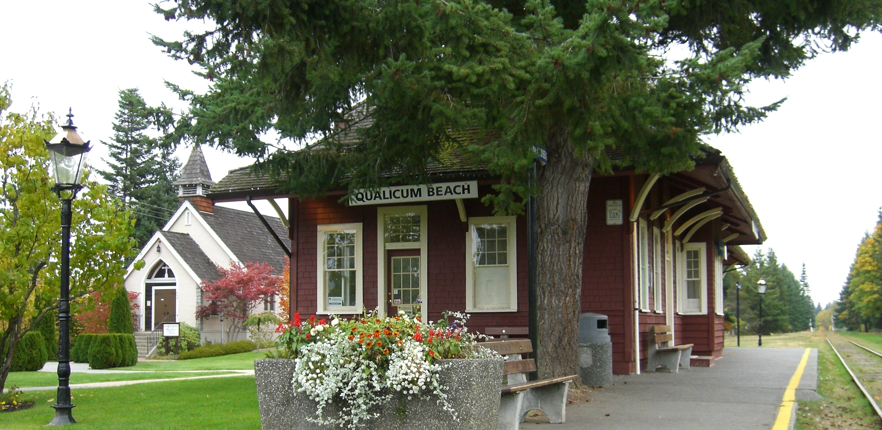 Image of E&N (Via) railway station, Qualicum Beach, BC taken October 14, 2006